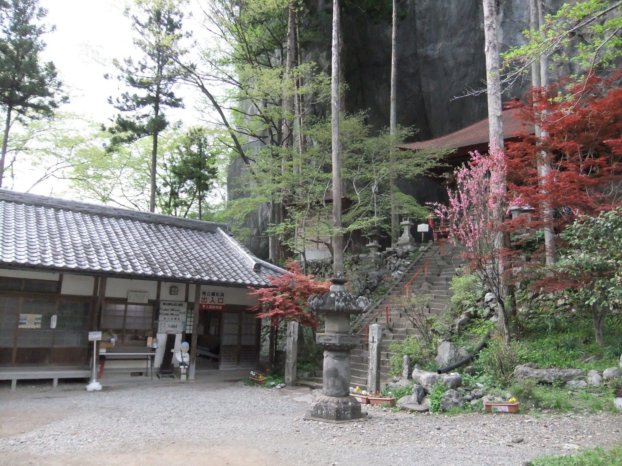 Hashidate-dō hall and Hashidate Limestone Cave in Chichibu City, Saitama Prefecture, Japan